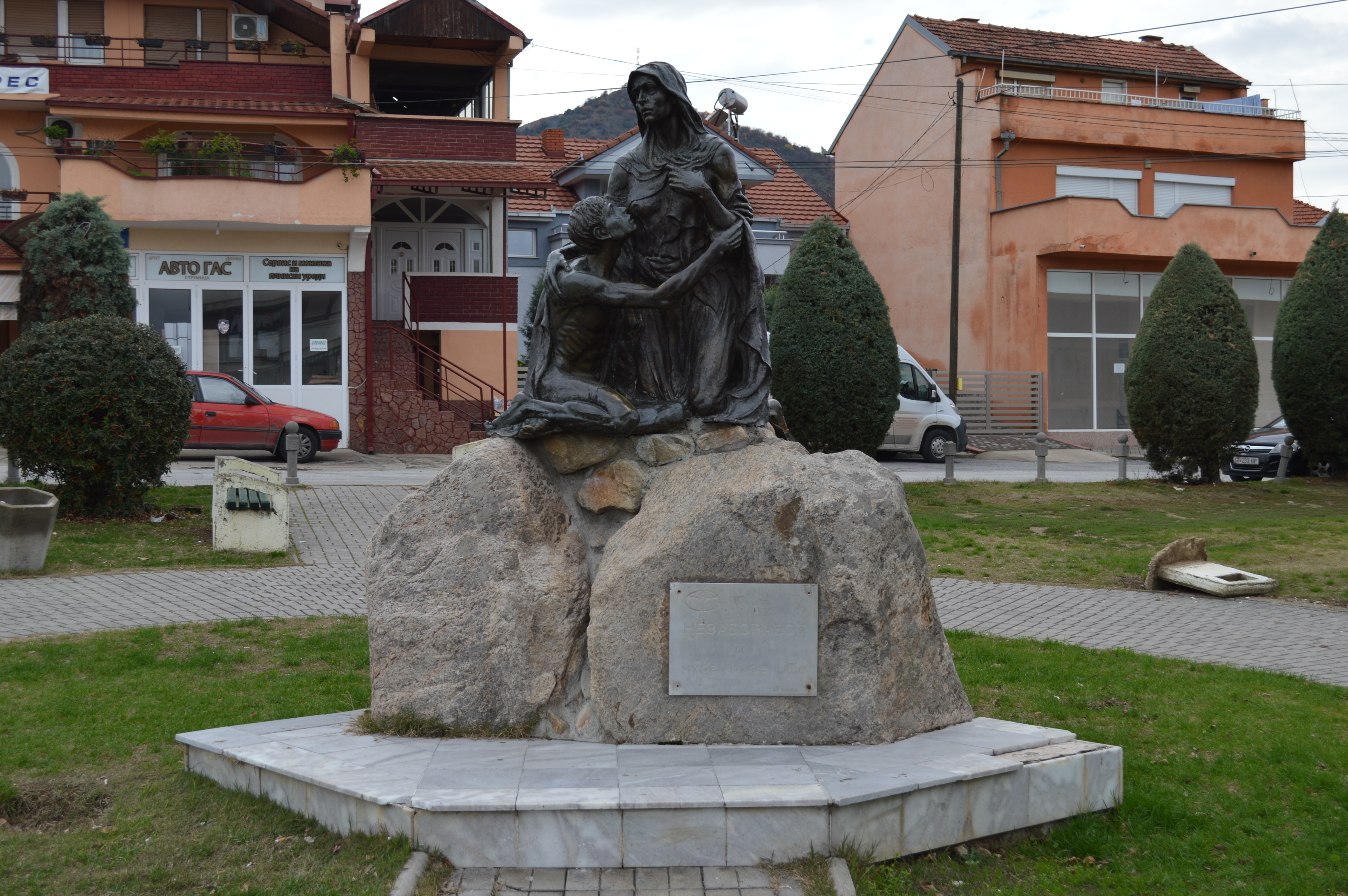 Monument of the kids-refugees (bezhanci), that were forced to flee their homes in the Greek part of the region Macedonia after the Treaty of Bucharest (1913). Built in the Bezhanci neighborhood in Strumica, where most of them settled.